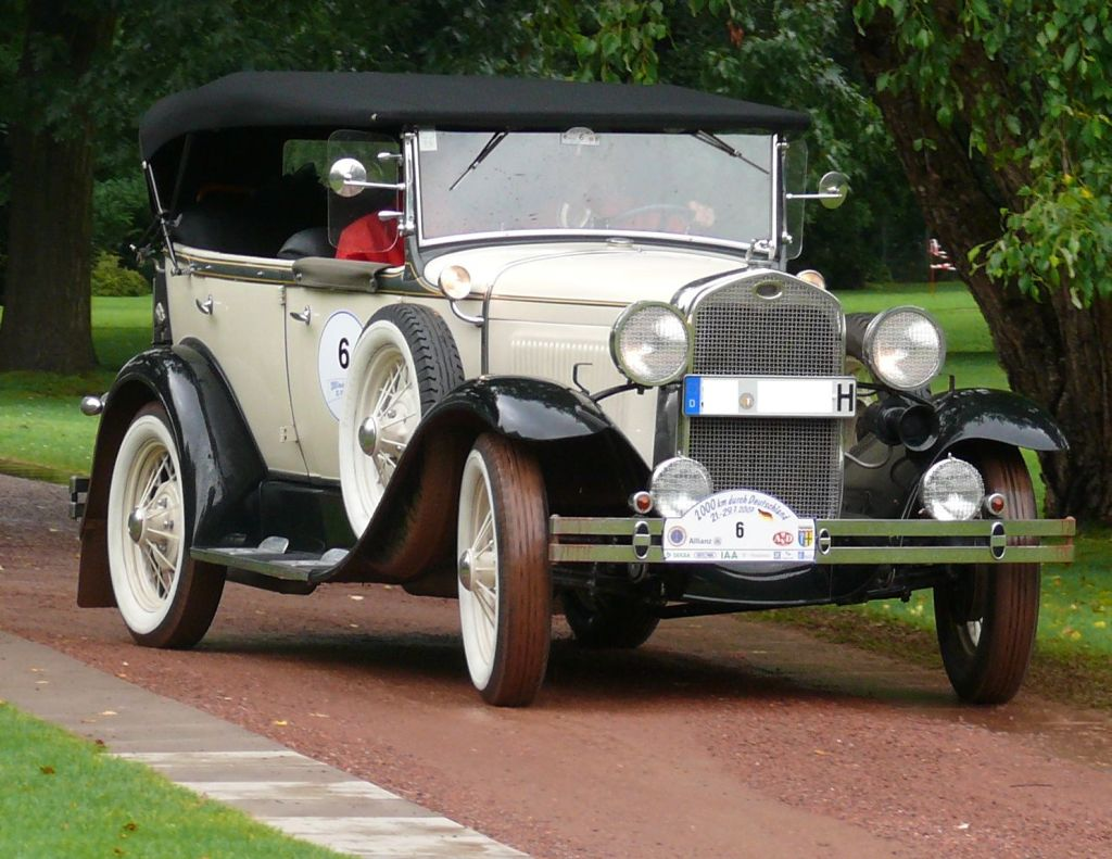 Ford A Phaeton